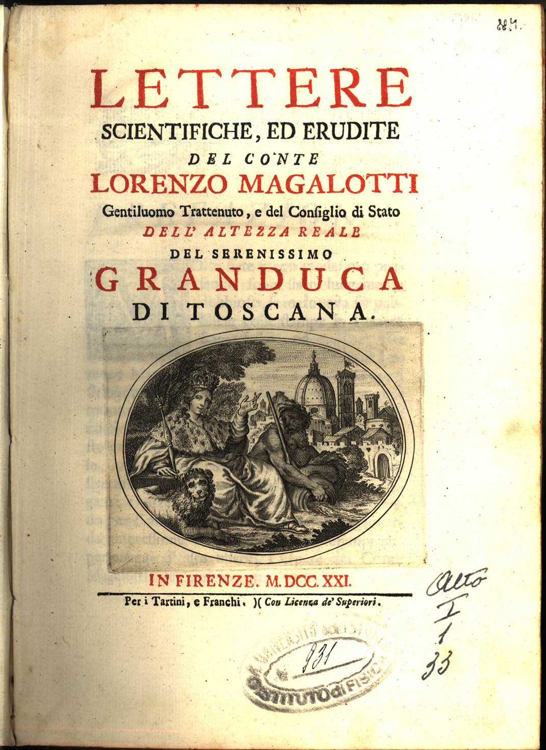 Title-page of Lettere scientifiche ed erudite by Lorenzo Magalotti (Firenze, 1721)